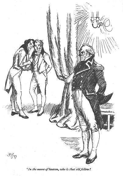 Illustration from Persuasion by Jane Austen. The illustration is by Hugh Thomson (1860-1920). This illustration is from Chapter 1 of Persuasion.